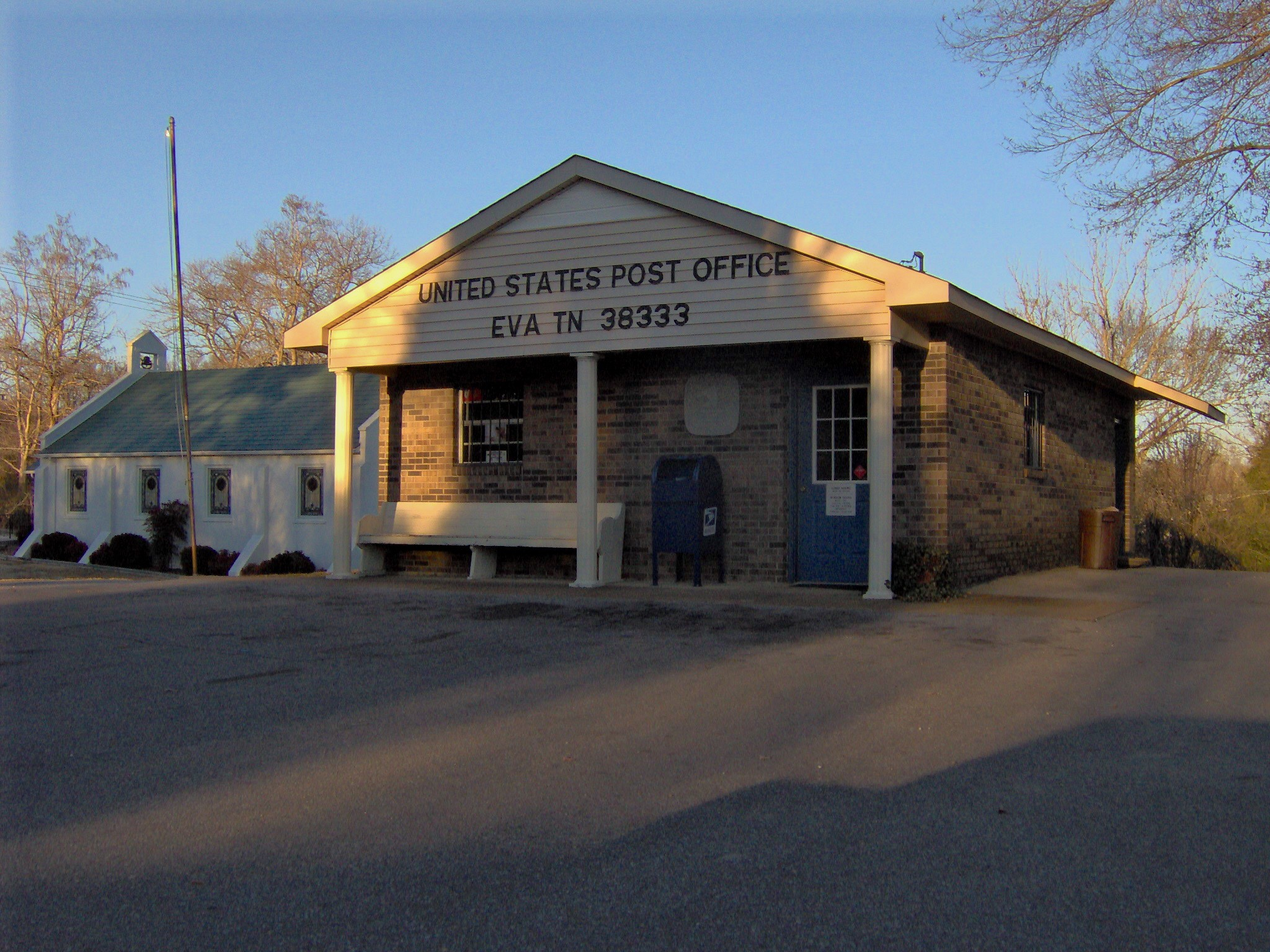 The Eva Post Office at the junction of Eva Beach Road and State Route 191 in Eva, Tennessee, in the southeastern United States.